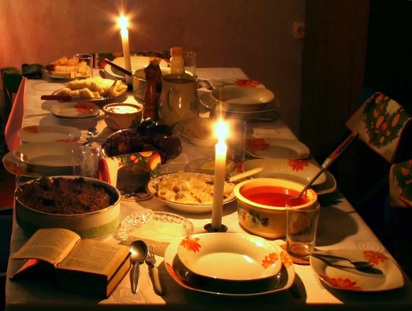 Traditional setting of the Christmas Eve table in Poland